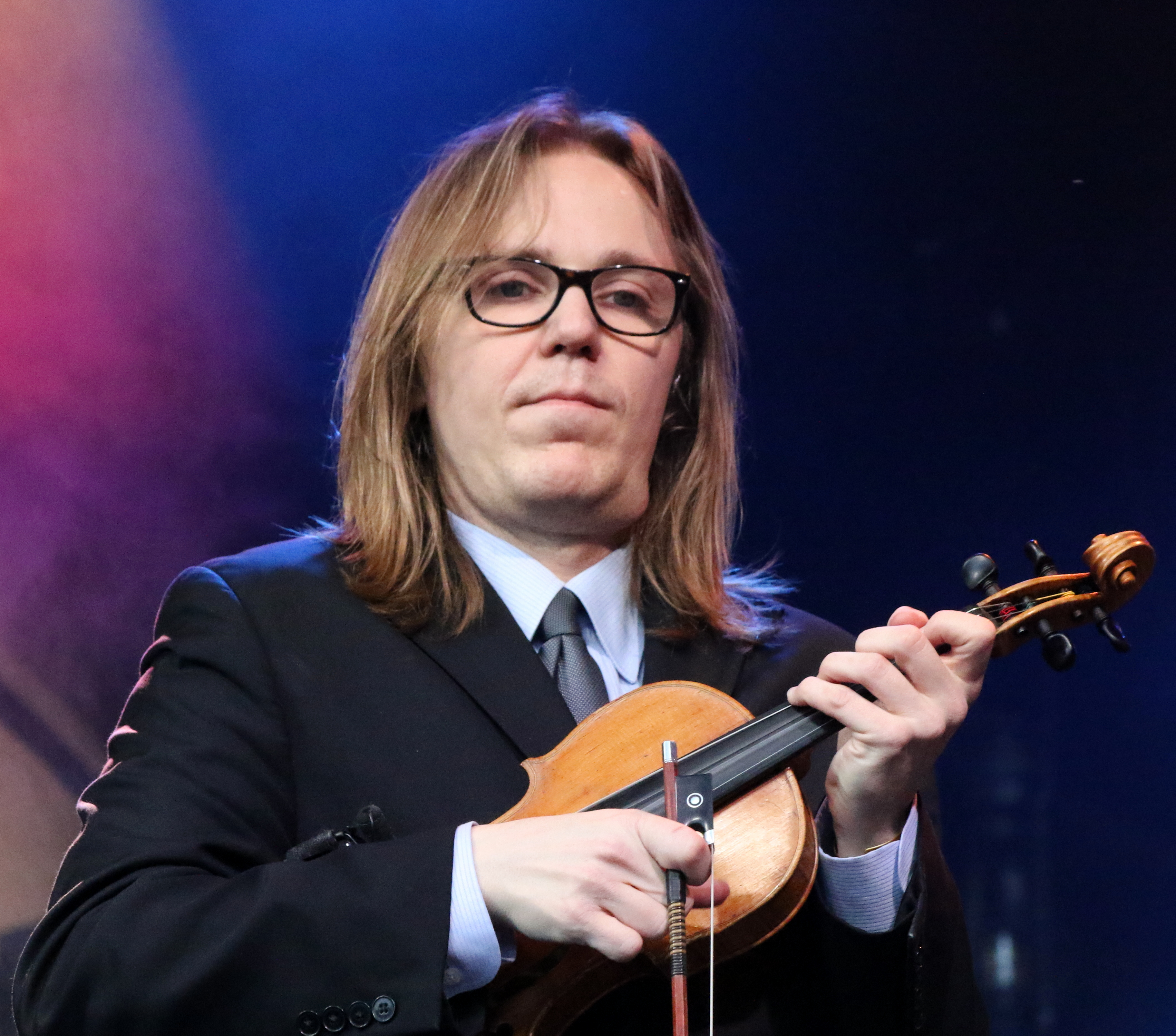 Nicky Sanders, bluegrass fiddler for the Steep Canyon Rangers, performing at the Doc and Merle Watson music festival in Wilkes County, NC, in April, 2016.